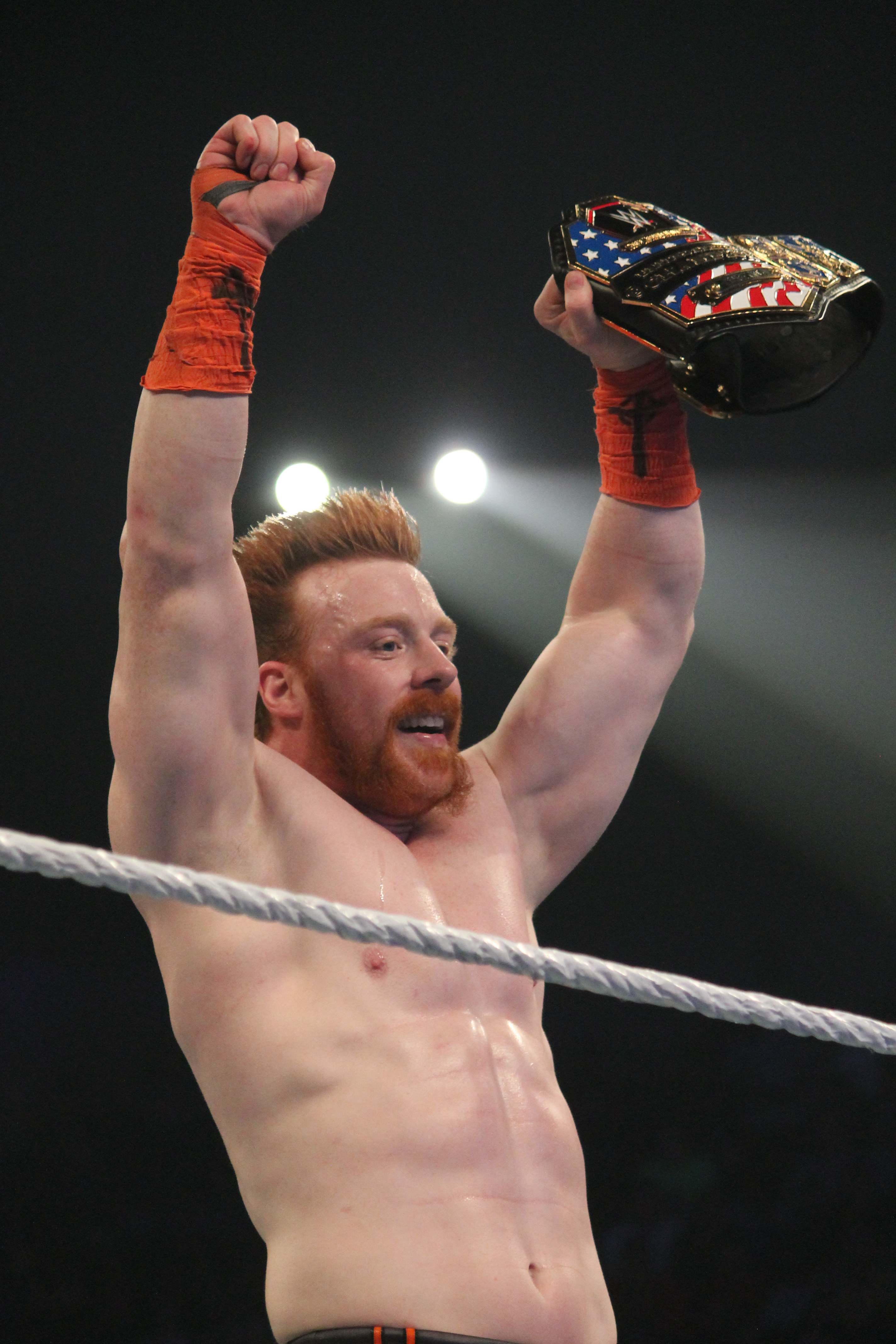 Sheamus, as the WWE United States Champion, at a WWE SmackDown television taping on September 16, 2014.